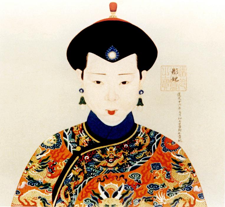 道光彤妃肖像